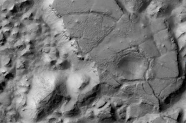 part of hirise image of gorgonum. Image was taken by the Mars Reconnaissance Orbiter's HiRISE. The HiRISE camera was built by Ball Aerospace and Technology orporation and is operated by the University of Arizona. Image courtesy NASA/JPL/University of Arizona.